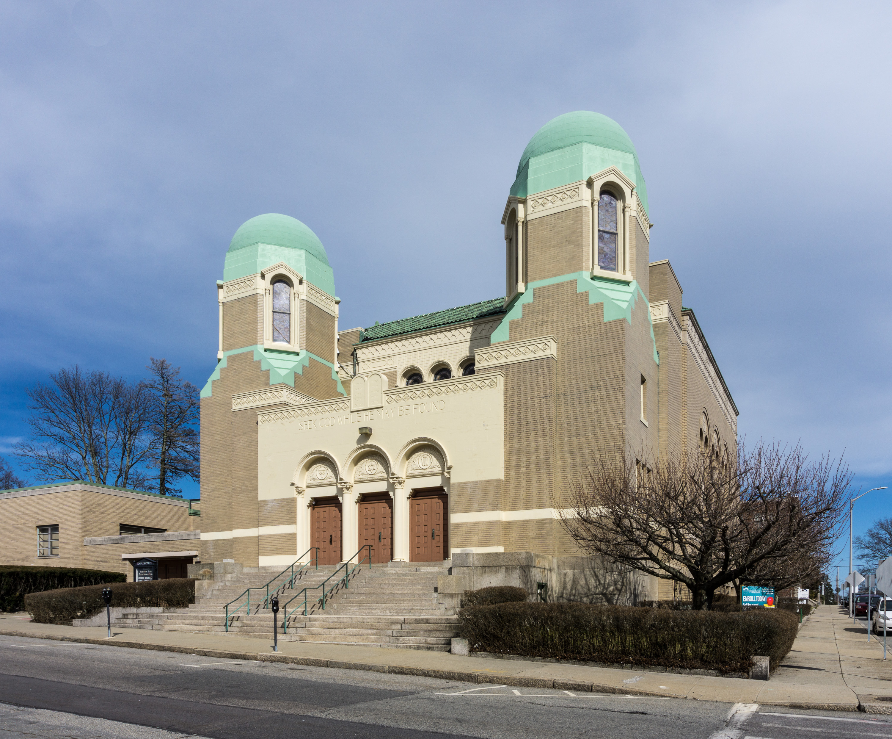 Fall River, Massachusetts.